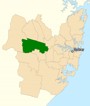 Incorporates or developed using Administrative Boundaries ©PSMA Australia Limited licensed by the Commonwealth of Australia under Creative Commons Attribution 4.0 International licence (CC BY 4.0). Derived from State and Territory Boundaries from the Australian Bureau of Statistics under Creative Commons Attribution 2.5 Australia license (CC BY 2.5 AU)